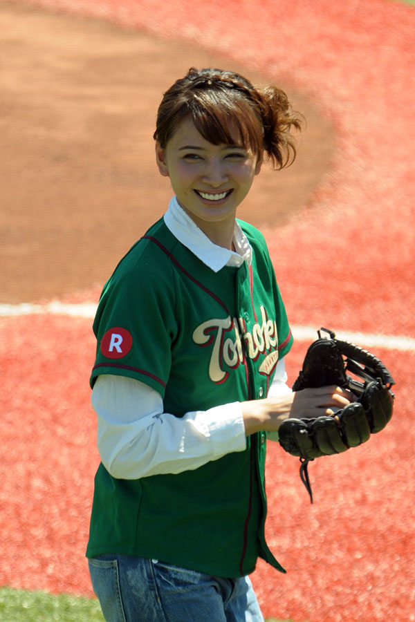 Natsuki Katō at Mizubayashi Green Stadium.